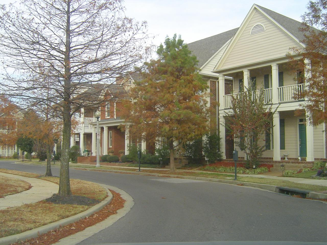 Photo taken by: Me Ricardo Arrechea user: barcode